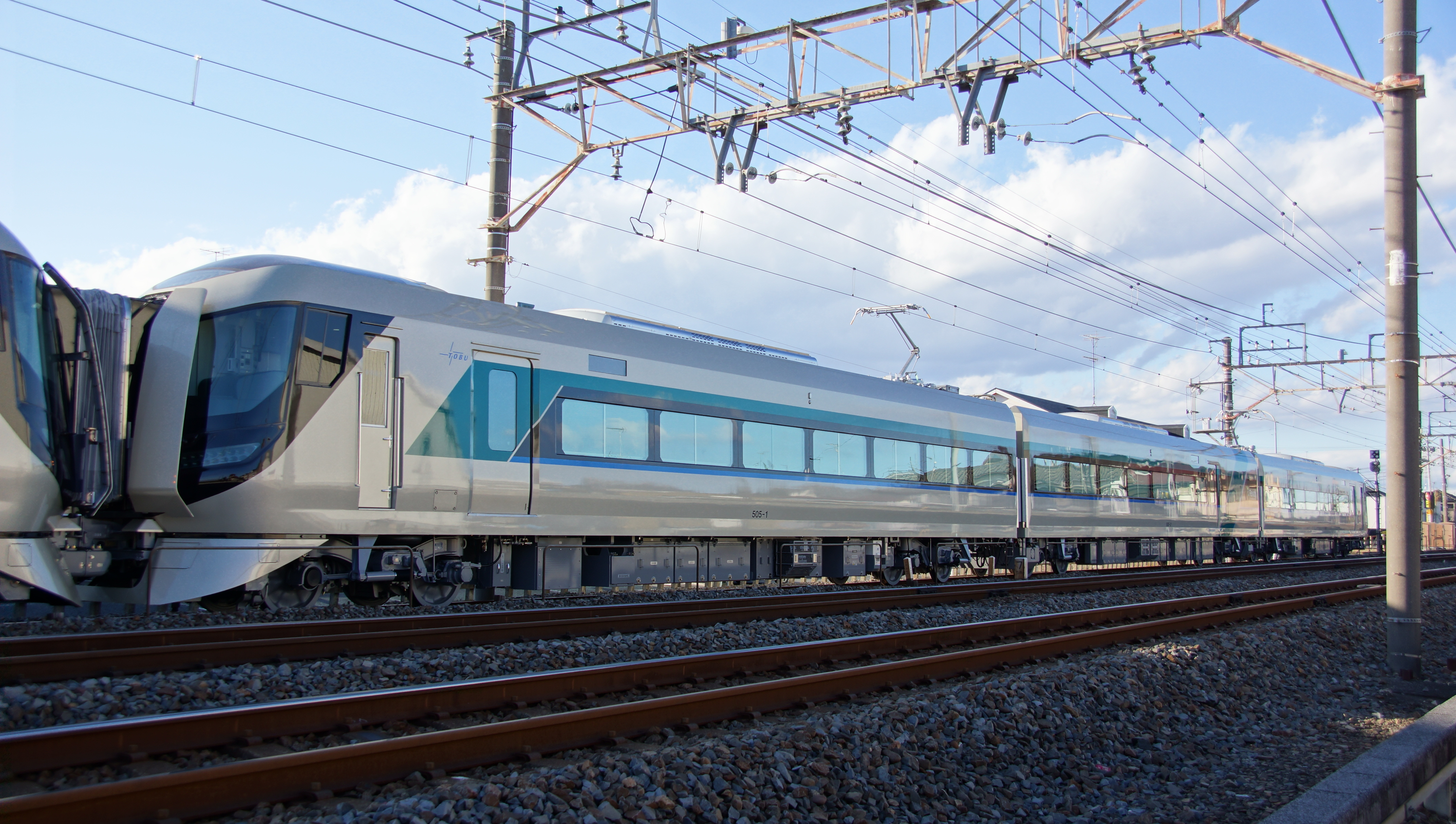 Tobu 500 series set 505 (right) and 504 (left) stabled at Hanyu Station in Saitama Prefecture on delivery from Kawasaki Heavy Industries in Kobe